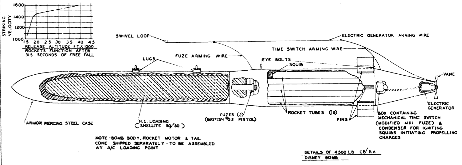 Diagram of a British, World War 2, Disney rocket-bomb